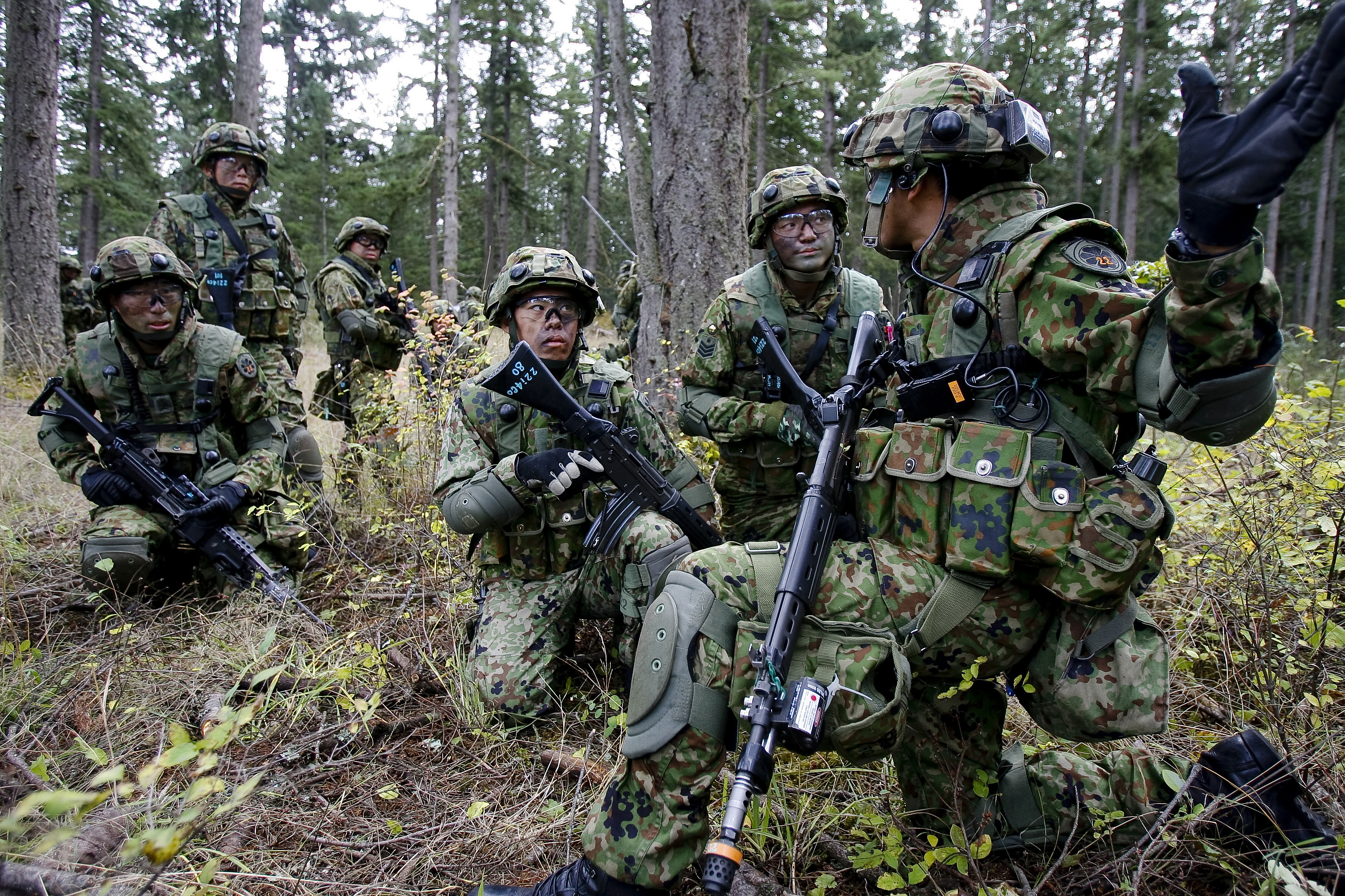 Japanese soldiers from the 22nd Infantry Regiment of the Japan Ground Self-Defense Force train in urban assault with American soldiers from 1st Battalion, 17th Infantry Regiment, 5th Brigade Oct. 17, 2008 during a bilateral exercise at Fort Lewis' Leschi Town.